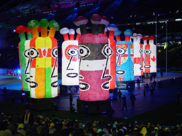 giant inflatable flags from each of the countries (Flickr)